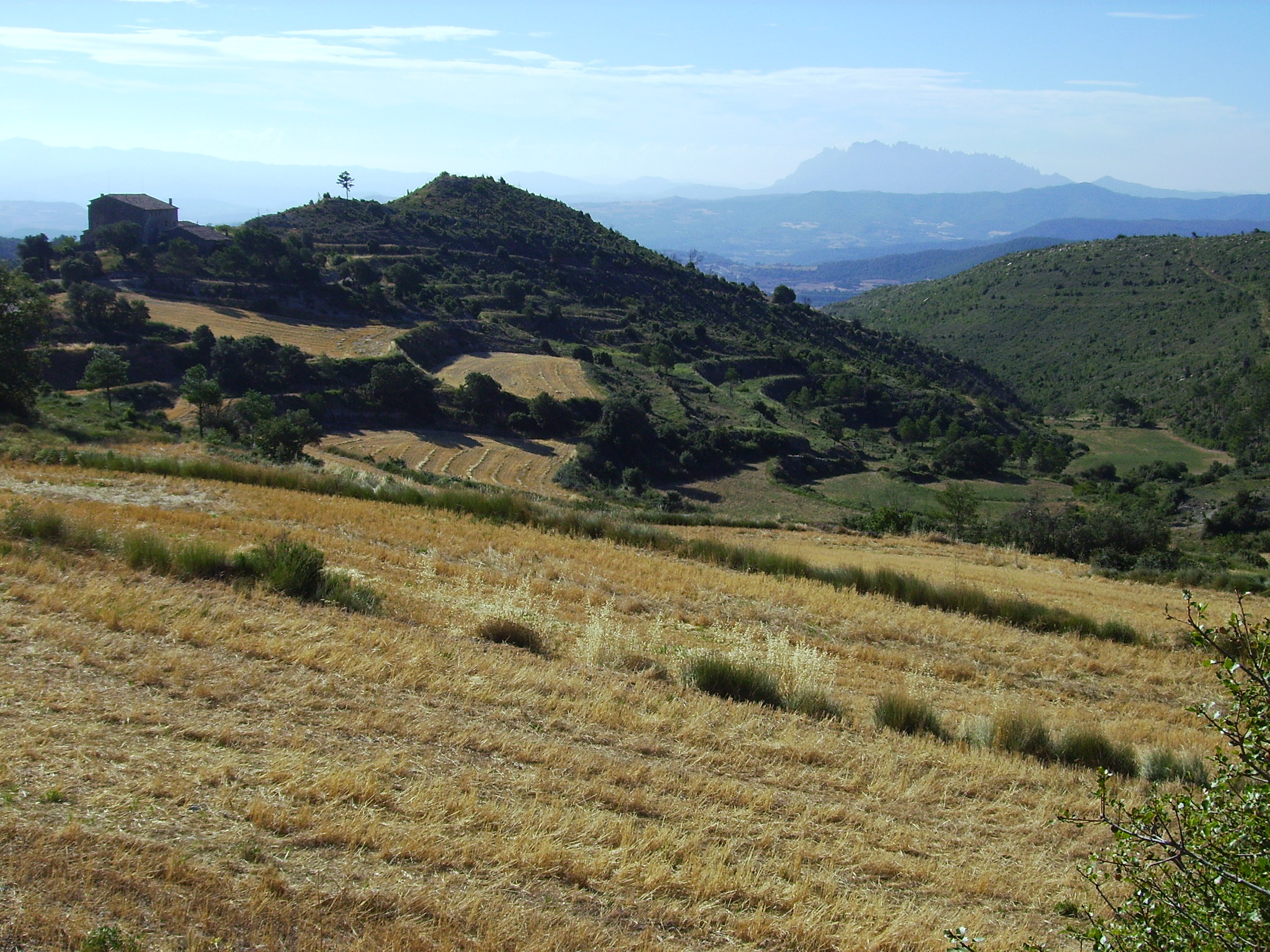 Dry farming plots (barley and saifon?) and terraces, Castelltallat, Catalonia, Spain; Montserrat located south in the background